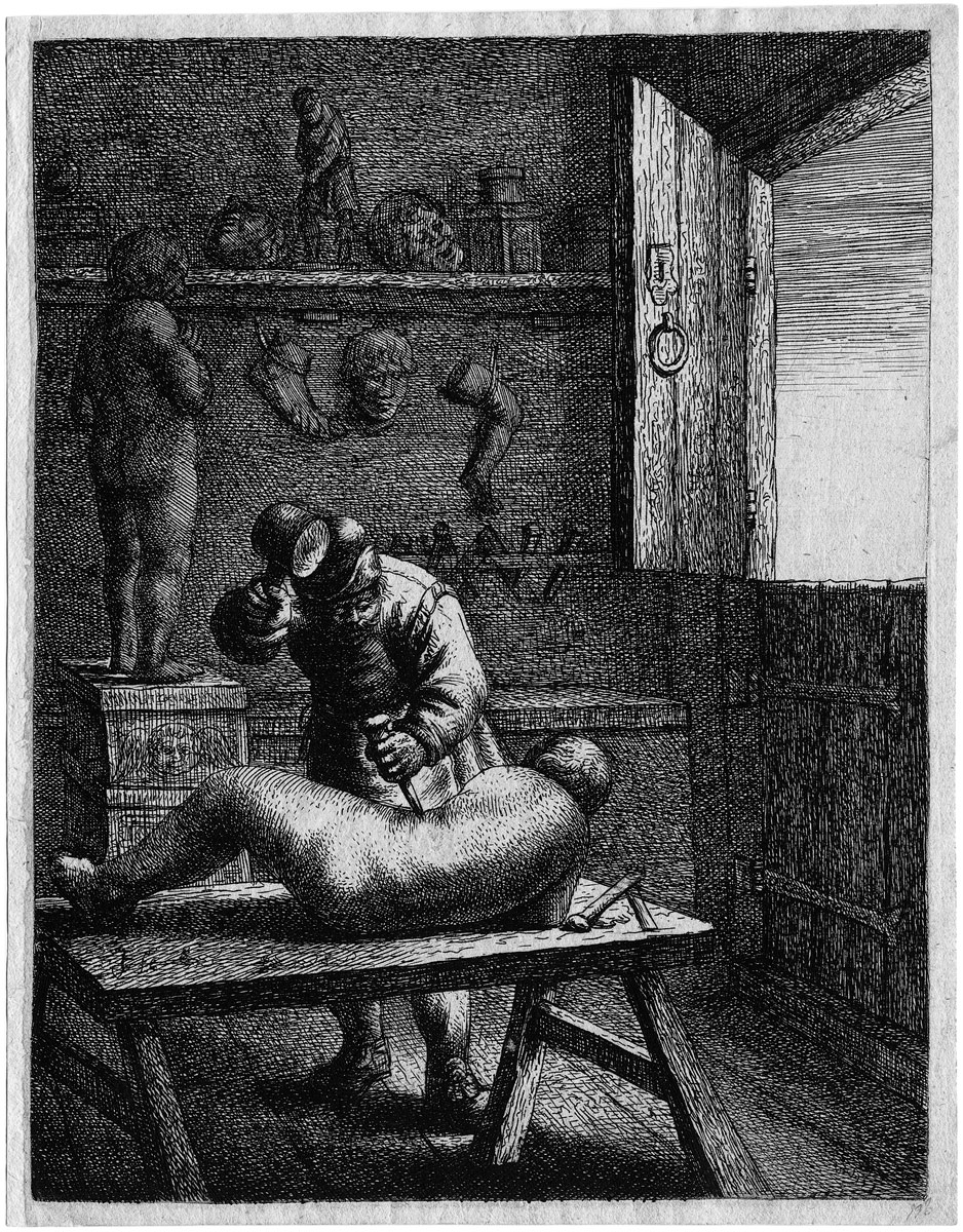 Sculptor, etching by Johannes van Vliet from a series of etchings of trades and professions